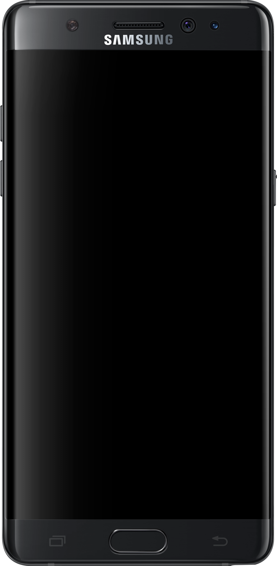 The Galaxy Note 7 picture